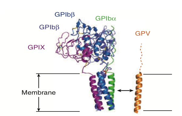 The membrane-proximal portion of GPIb–IX is shown at an angle to show the GPIbα TM helix accessibility for direct association with the GPV TM helix (in orange), and the inaccessibility of the GPIX TM helix.